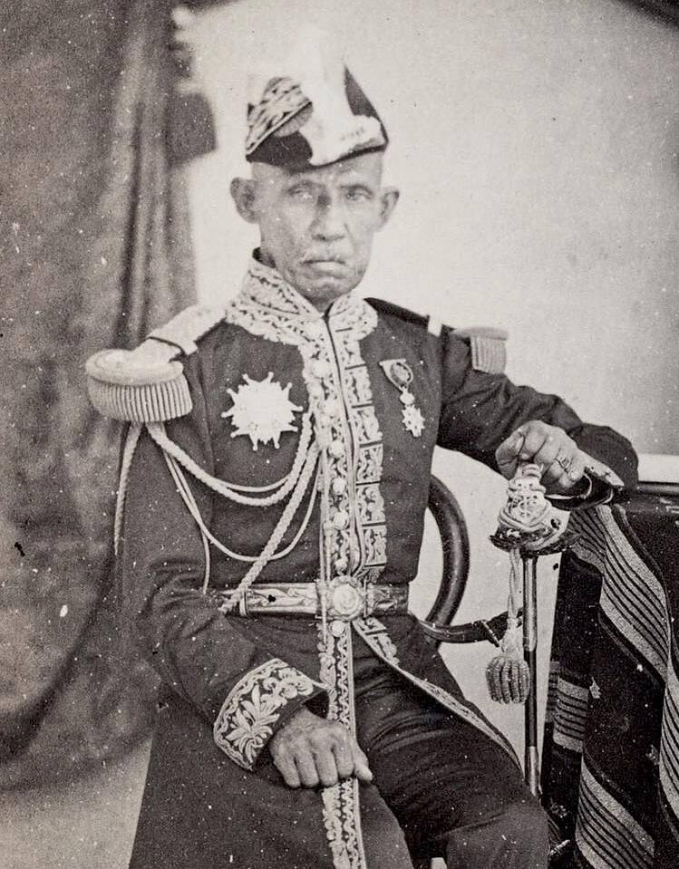 Photograph of Vice-King Pinklao in Naval uniform